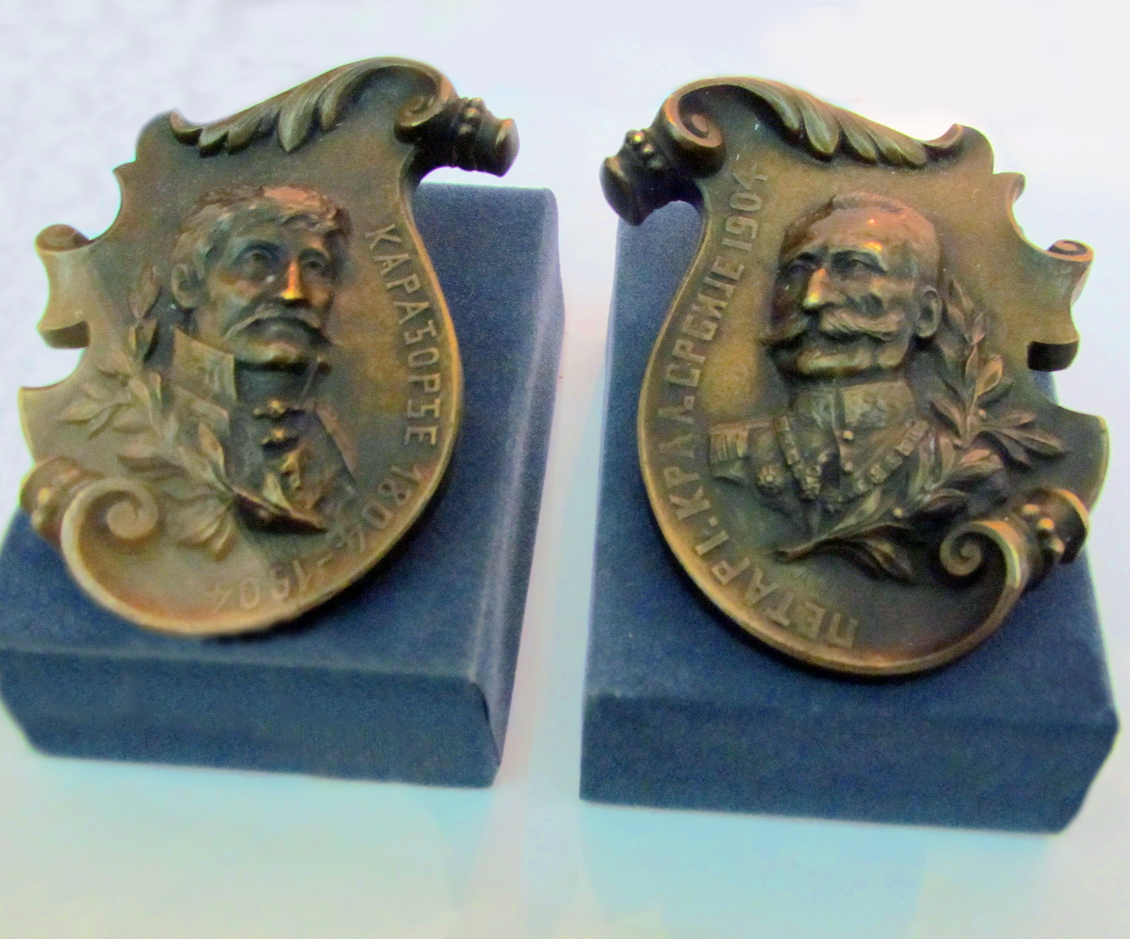 Petar Ubavkić, Karađorđe and Petar I Karađorđević, 1904